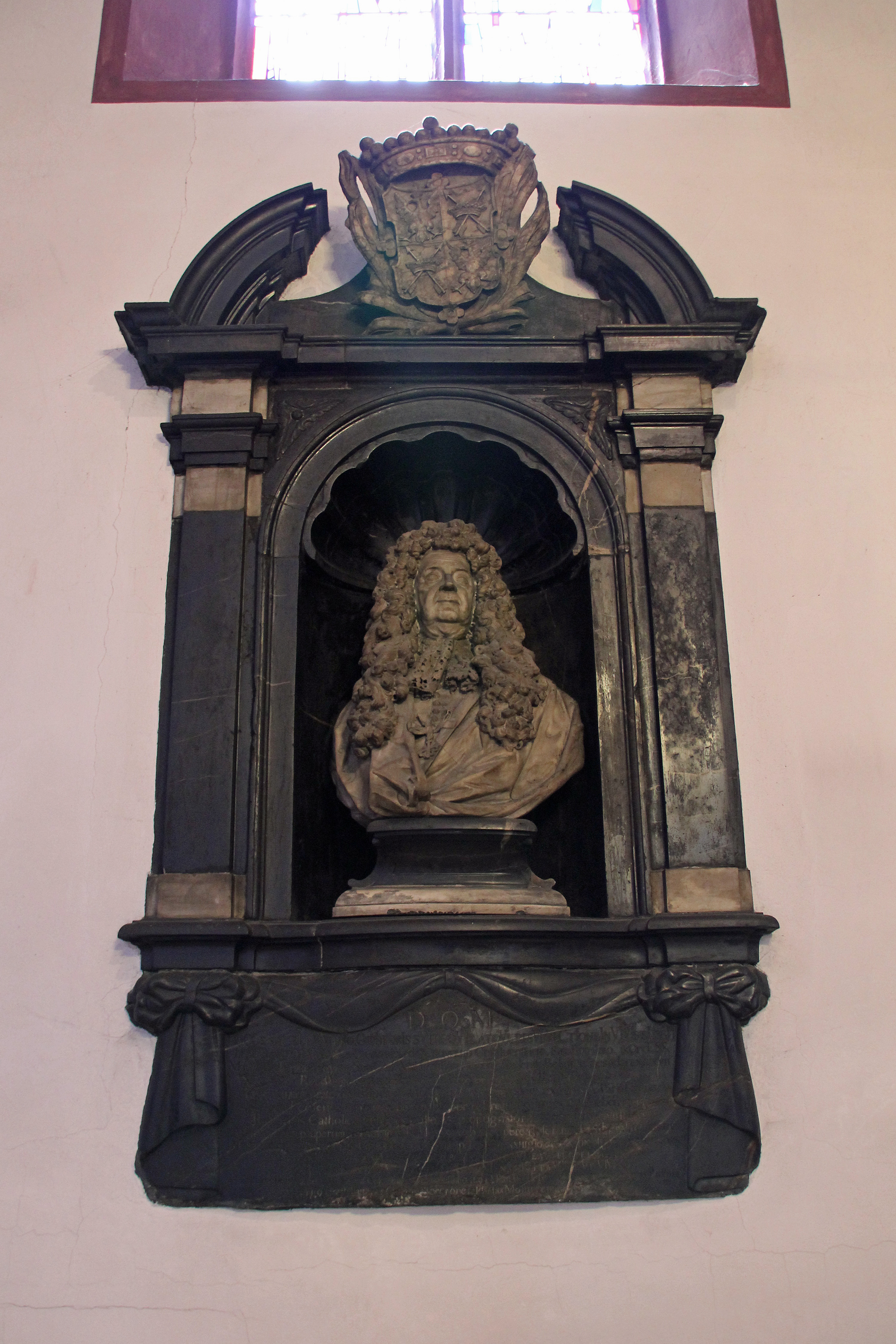 Liebfrauenkirche in Koblenz